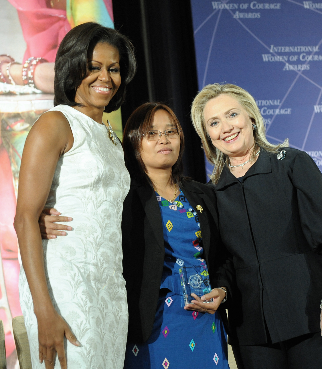 2012 International Women of Courage Awards Ceremony Remarks Hillary Rodham Clinton Secretary of State Melanne Verveer Ambassador-at-Large for Global Women's Issues First Lady Michelle Obama Dean Acheson Auditorium Washington, DC March 8, 2012